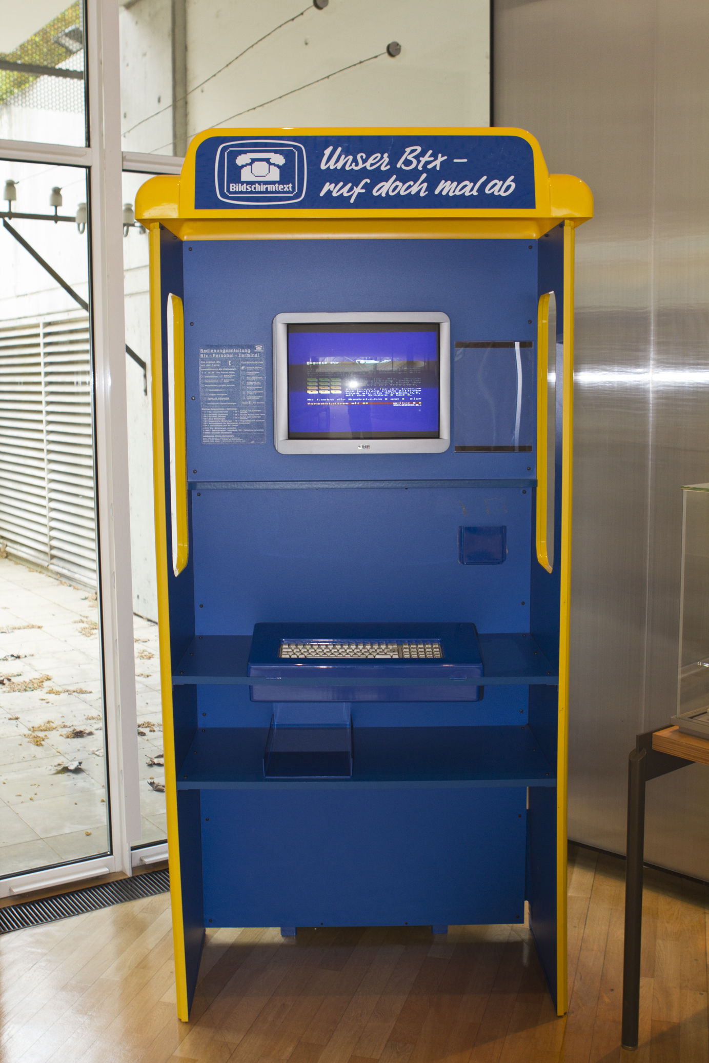 Public "BTX-Terminal" in Germany. Collection at the Museum für Kommunikation Frankfurt/Main